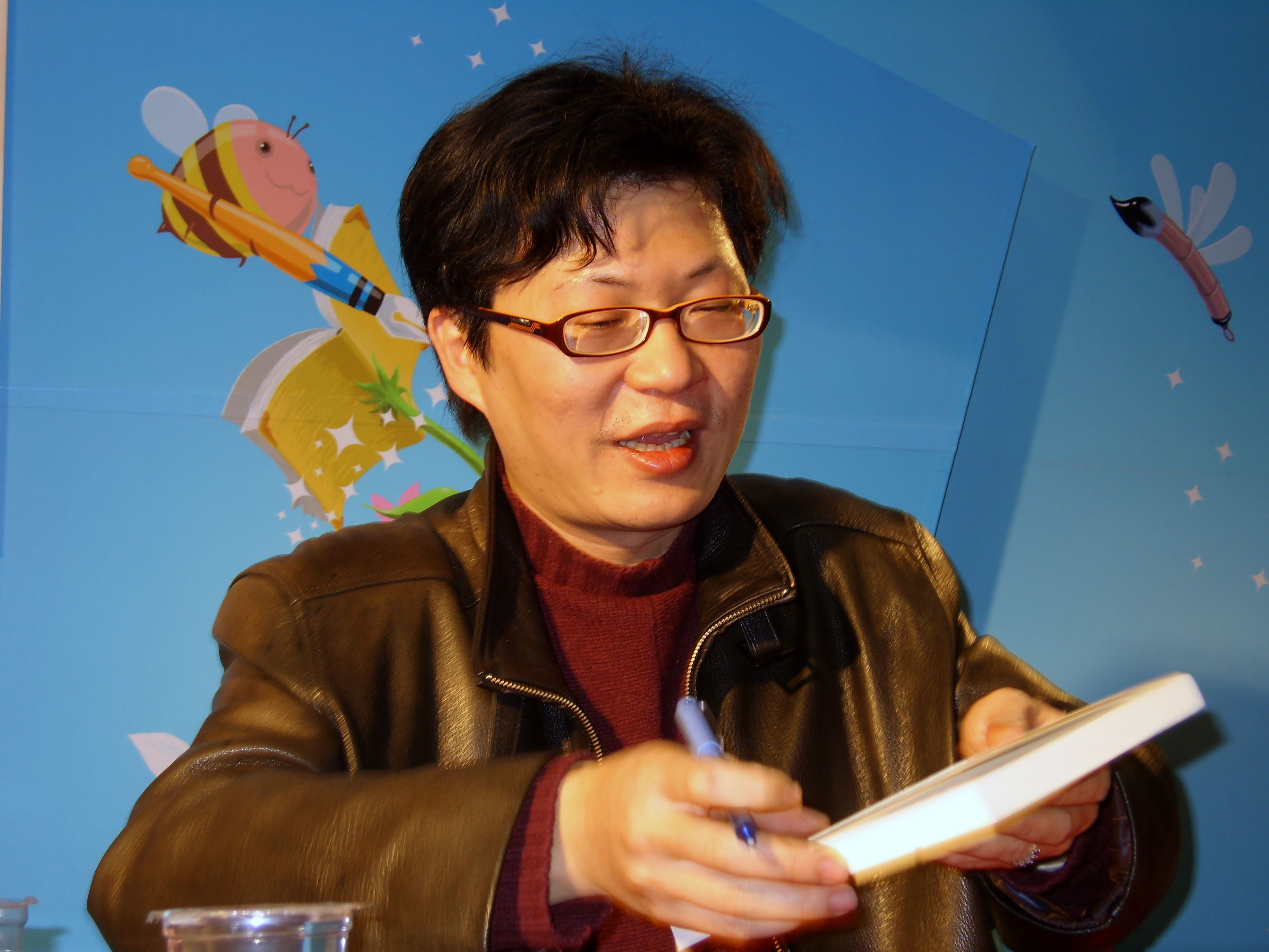 2008 Taipei International Book Exhibition - Activity Center 1: Jhih-heng "JHT the Ruffian" Tsai, a famous Internet novelist from Taiwan.